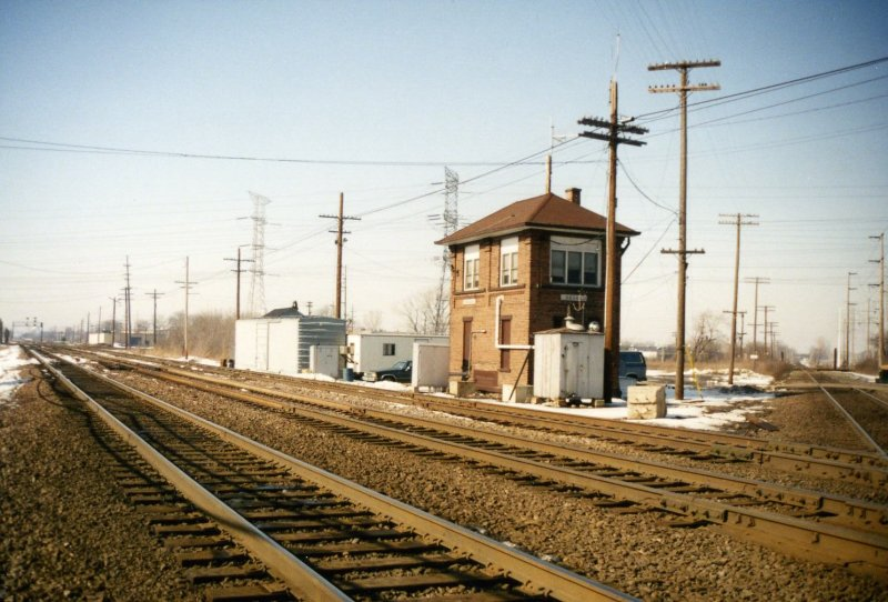 Interlocking tower and tracks at Deval interlocking, in Des Plaines, Illinois. Built by Chicago and North Western RR, later controlled by Union Pacific RR. The tower was closed in 2005 and razed in 2012.